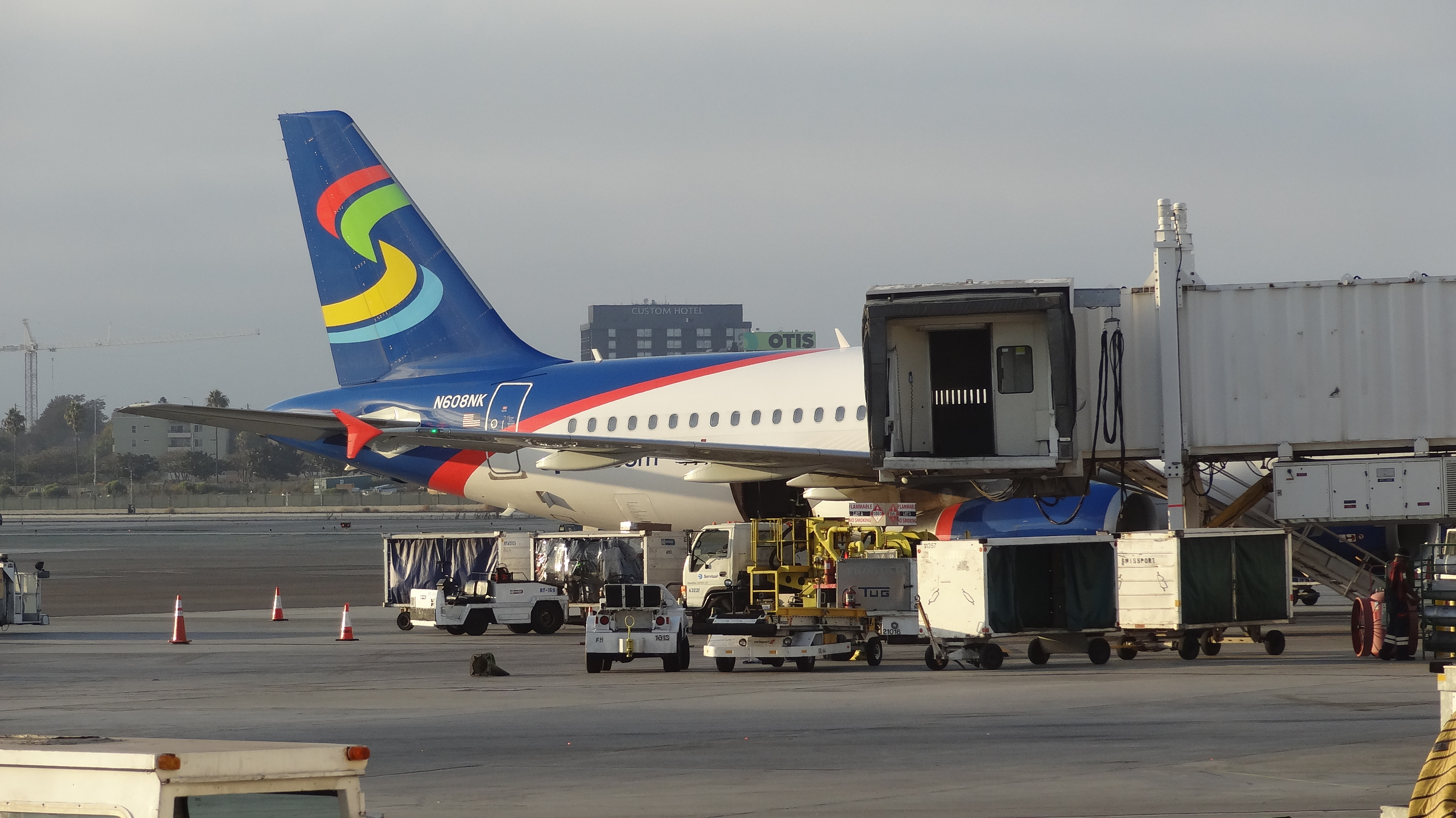 Terminal 3 is served by ultra low cost carrier Spirit Airlines.